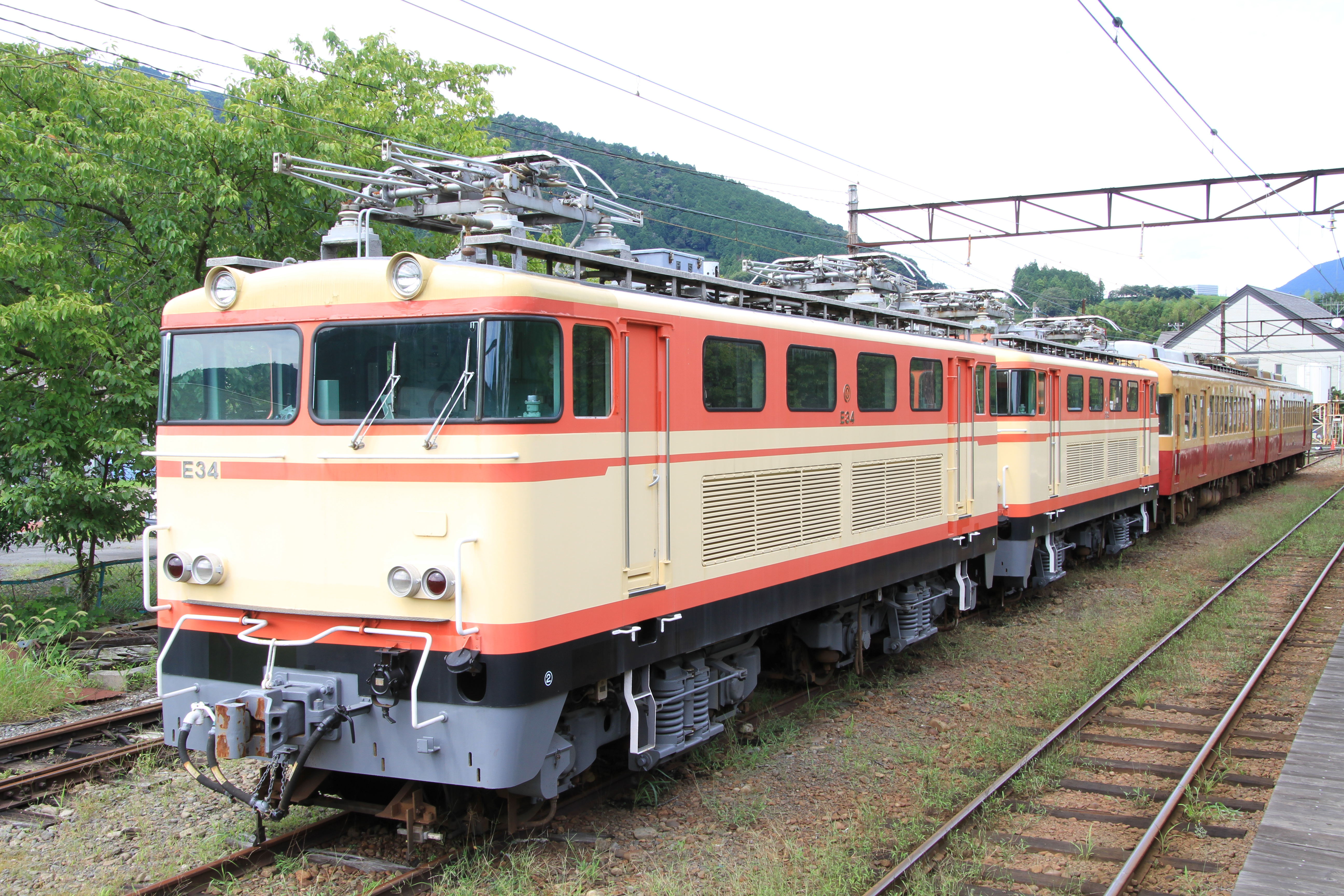 A pair of former Seibu Railway Class E31 electric locomotives stored at Ieyama Station on the Oigawa Railway